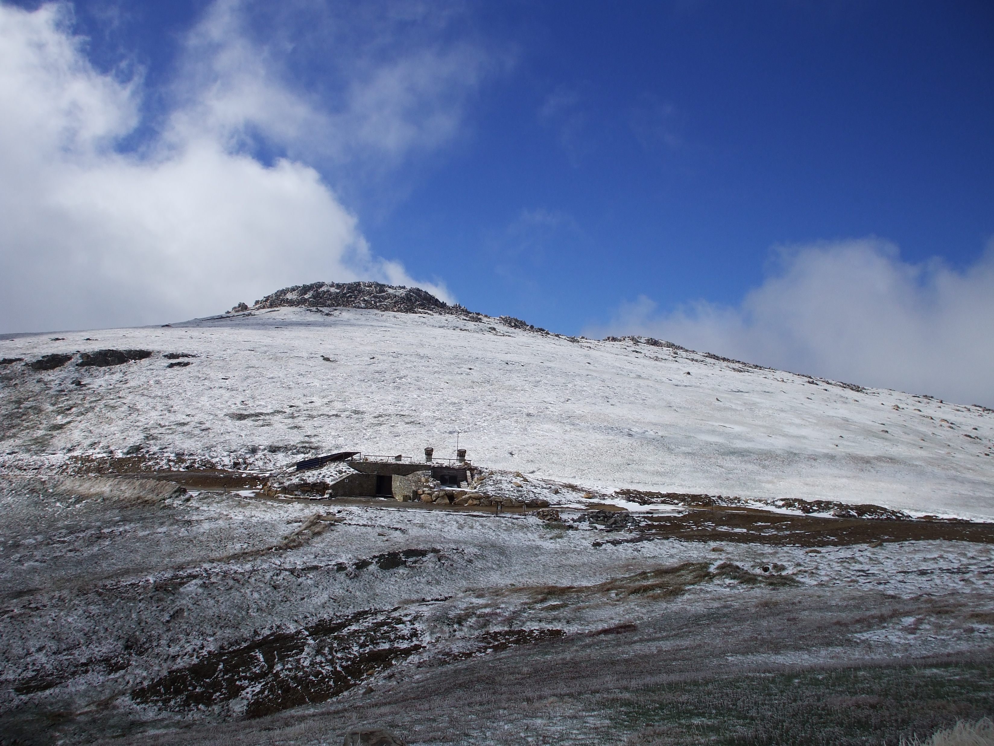 a view of Mount Koscisuko, Australia.